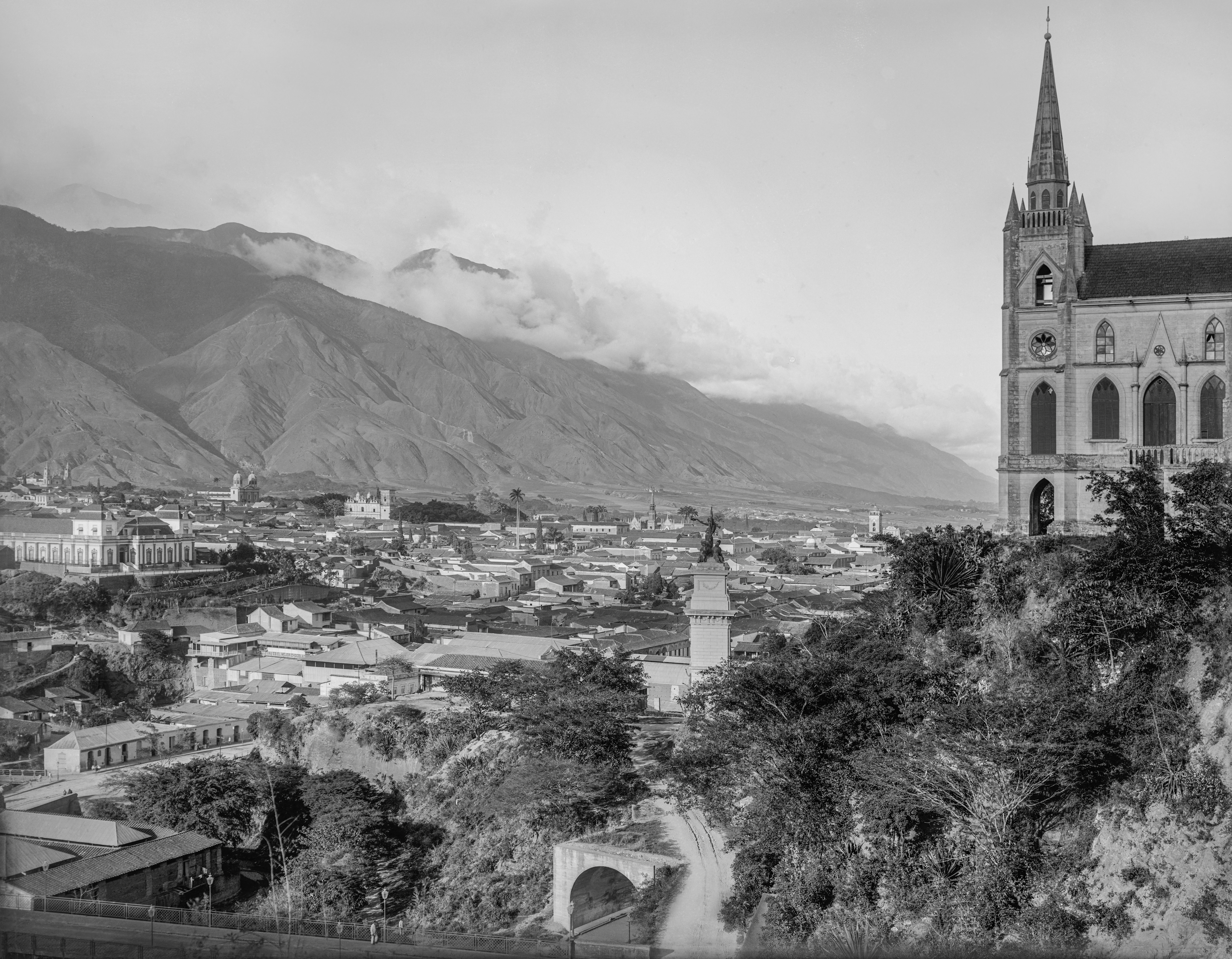 Panoramic view of Caracas from El Calvario, on the right Our Lady of Lourdes Chapel, Venezuela.